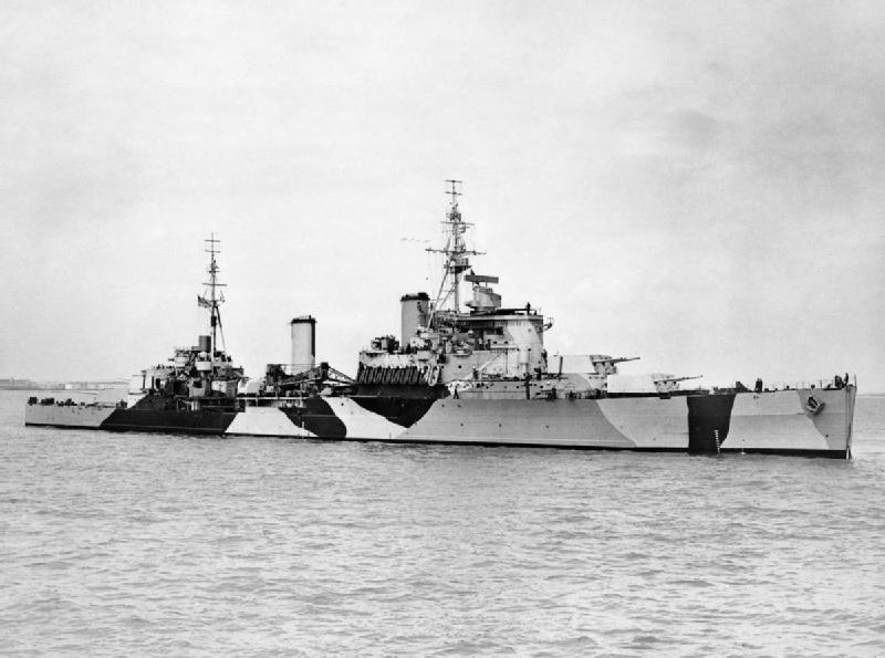 British light cruiser HMS JAMAICA at anchor.